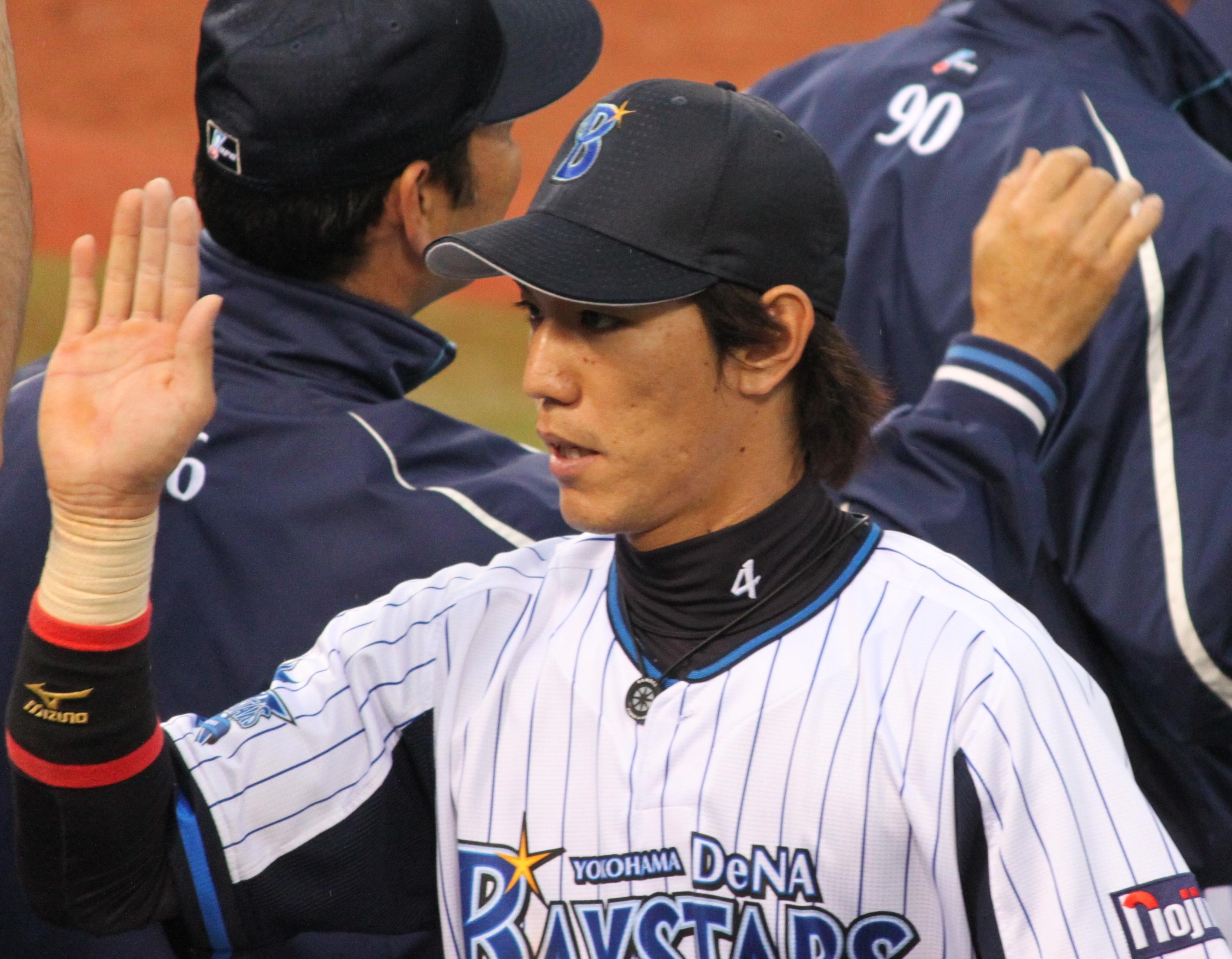 Sho Aranami, outfielder of the Yokohama DeNA BayStars, at Yokohama Stadium.